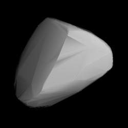 3D convex shape model of 1010 Marlene, computed using light curve inversion techniques. J. Hanuš, J. Ďurech, M. Brož, B. D. Warner (June 2011). "A study of asteroid pole-latitude distribution based on an extended set of shape models derived by the lightcurve inversion method". Astronomy and Astrophysics 530: A134. ISSN 0004-6361. arXiv